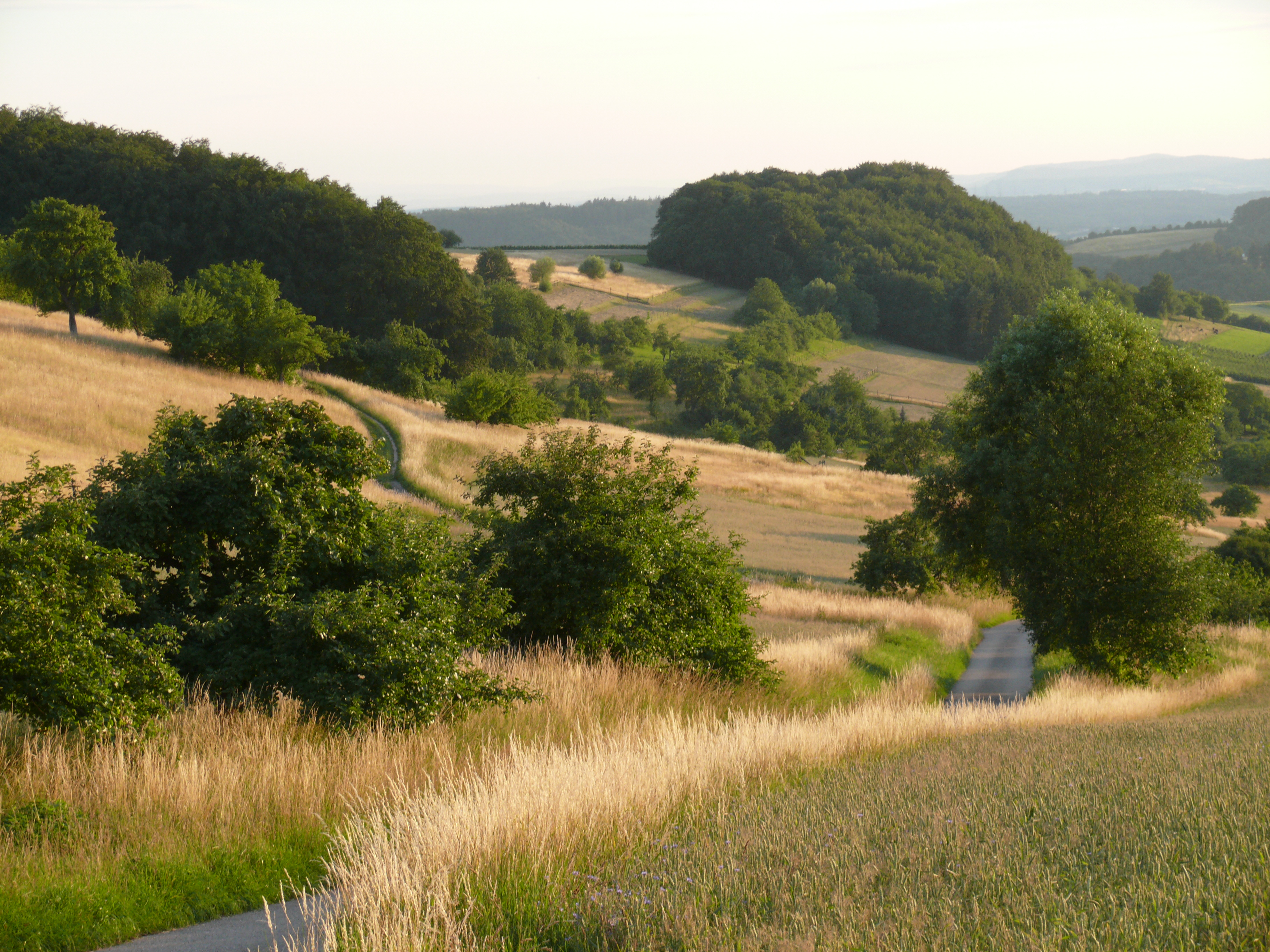 Meadows, fields, orchards and wood east of the hamlet Billensbach (a district of Beilstein, Baden-Württemberg, Germany), seen in the light of an evening in June. In the foreground, the track leading to Stocksberg; in the middle ground at the left, the so-called Sandweg.